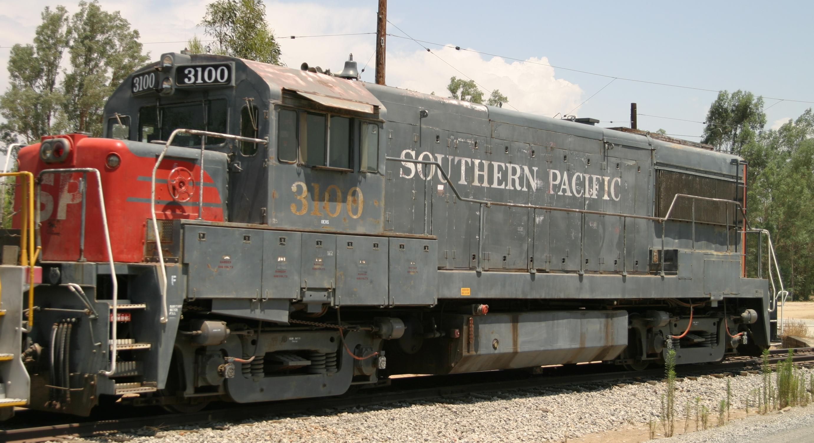 GE U25B locomotive at the Orange Empire Railway Museum in Perris.